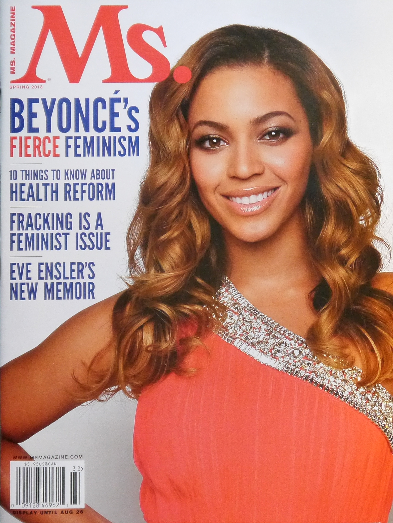 Ms. magazine, Spring 2013 issue featuring Beyonce